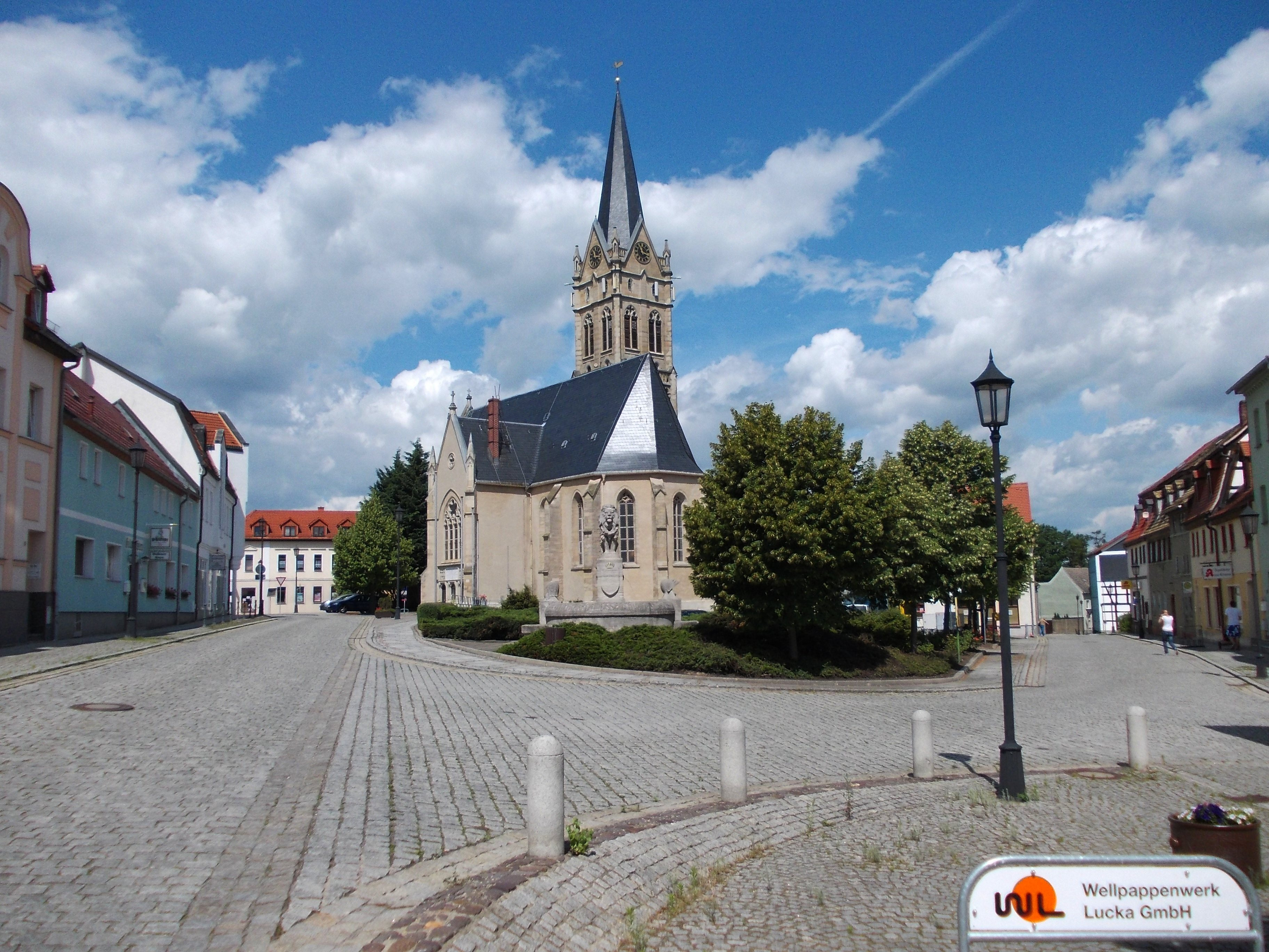 Market square with St. Pancratius Church and Wettin Fountain in Lucka (district of Altenburger Land, Thuringia)